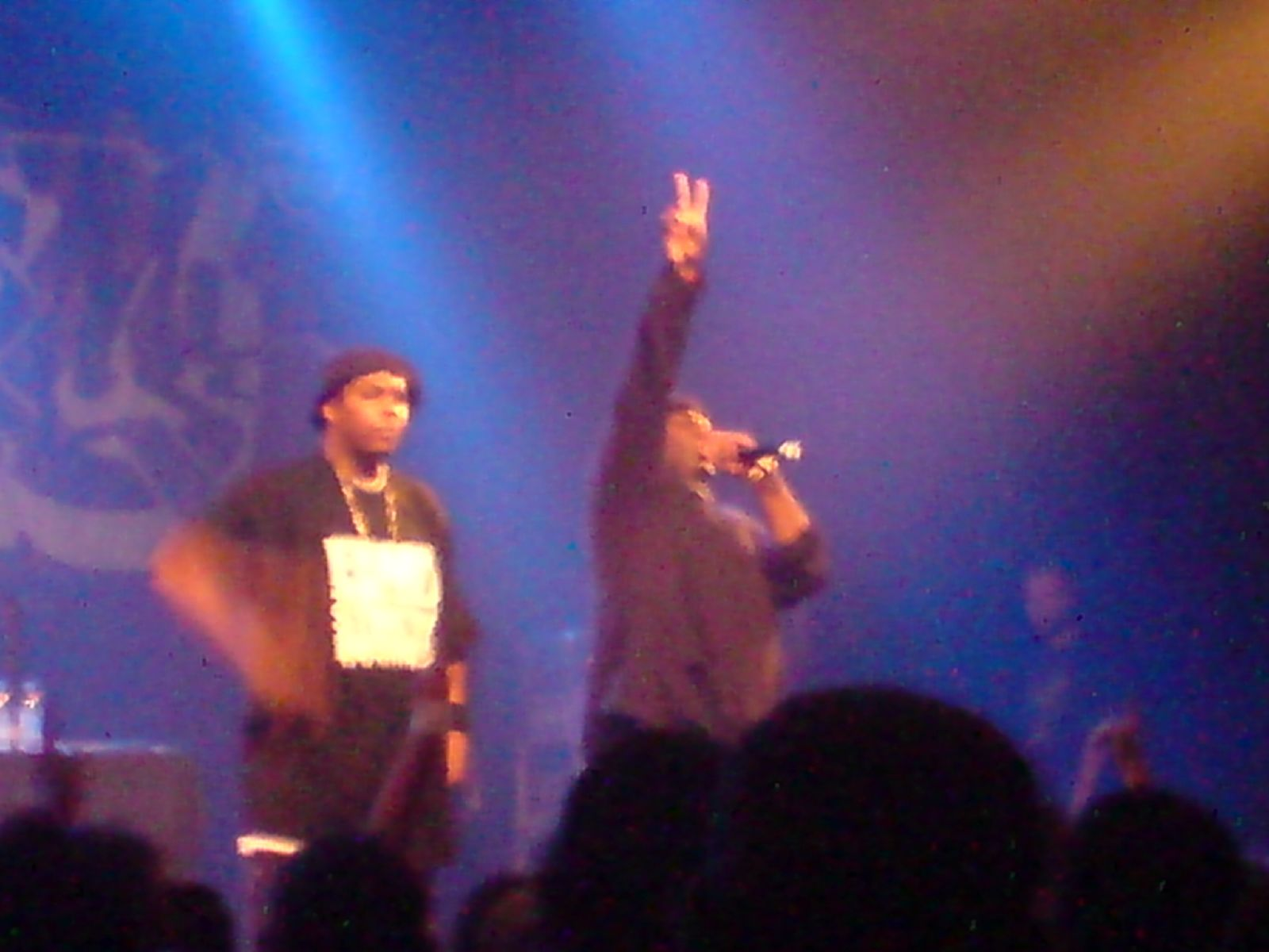 EPMD performing live in 2006.